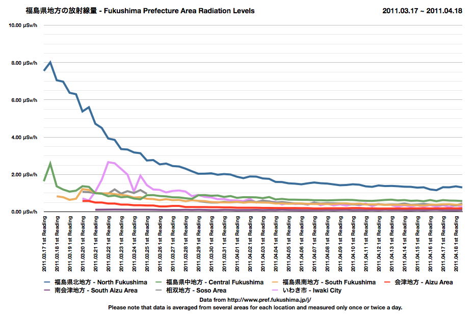 Fukushima Prefecture radiation levels from March 17 to April 18, 2011